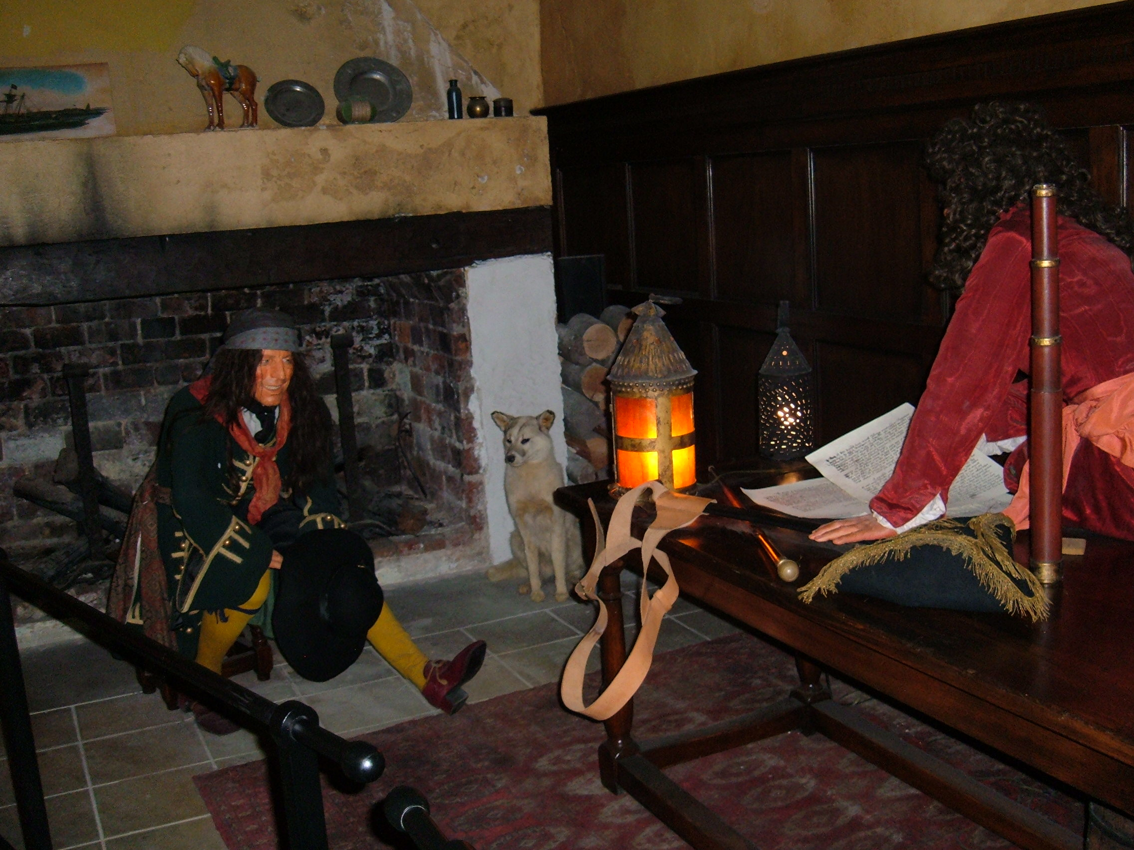 A scene depicting a meeting between Benjamin Hornigold (left) and Woodes Rogers at the Pirates of Nassau museum in Nassau, The Bahamas.